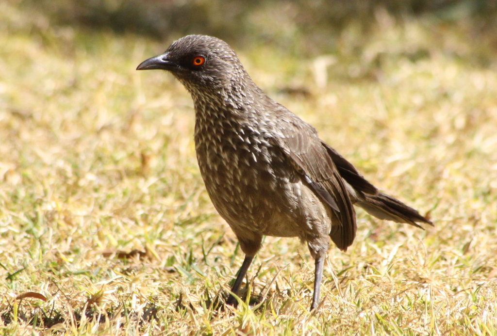 A Arrow-marked Babbler in South Africa.